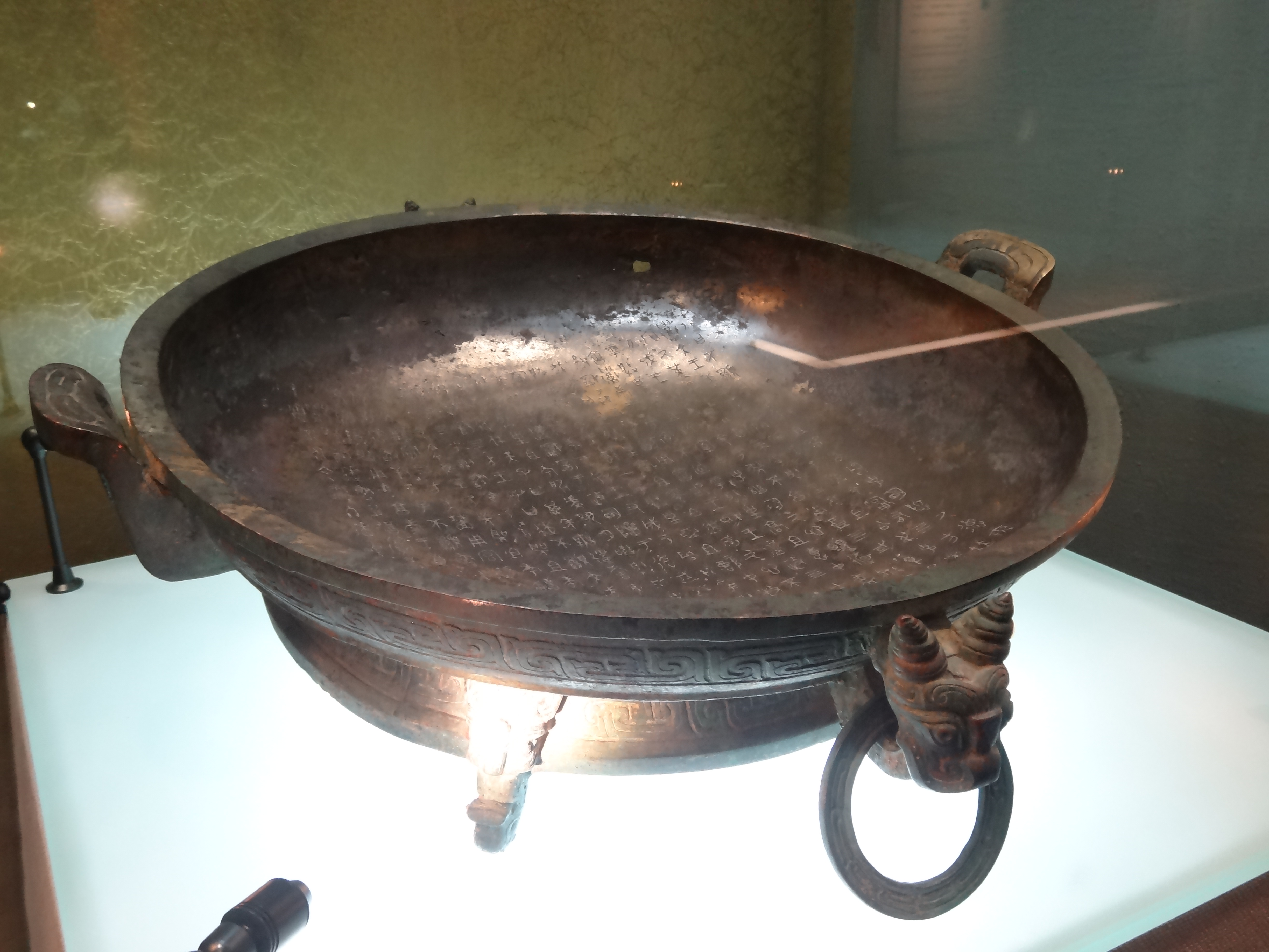 Lai pan, Western Zhou Dynasty (11th century BC - 771 BC), 20.4 cm high, 53.6 cm diameter. Unearthed on January 19, 2003 in Mei County, Baoji City, Shaanxi Province.